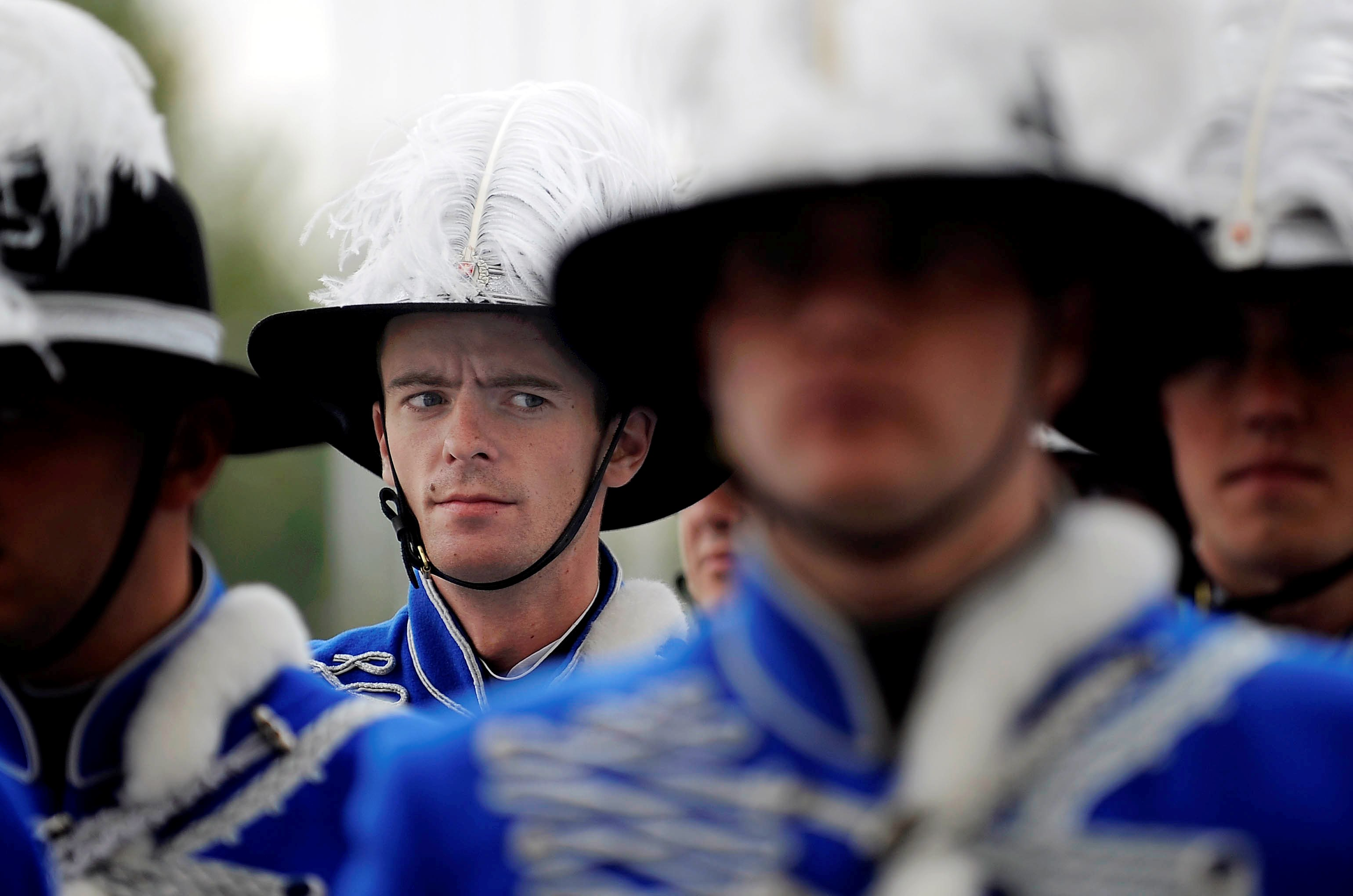 A Slovakian honor guard stands ready during a meeting of NATO defense ministers in Bratislava, Slovakia, Oct. 23, 2009.